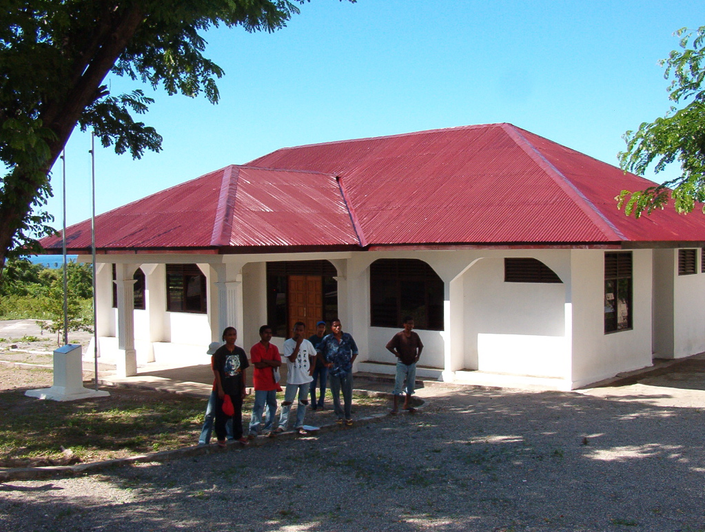 Women and children's community centre in Liquica/East Timor